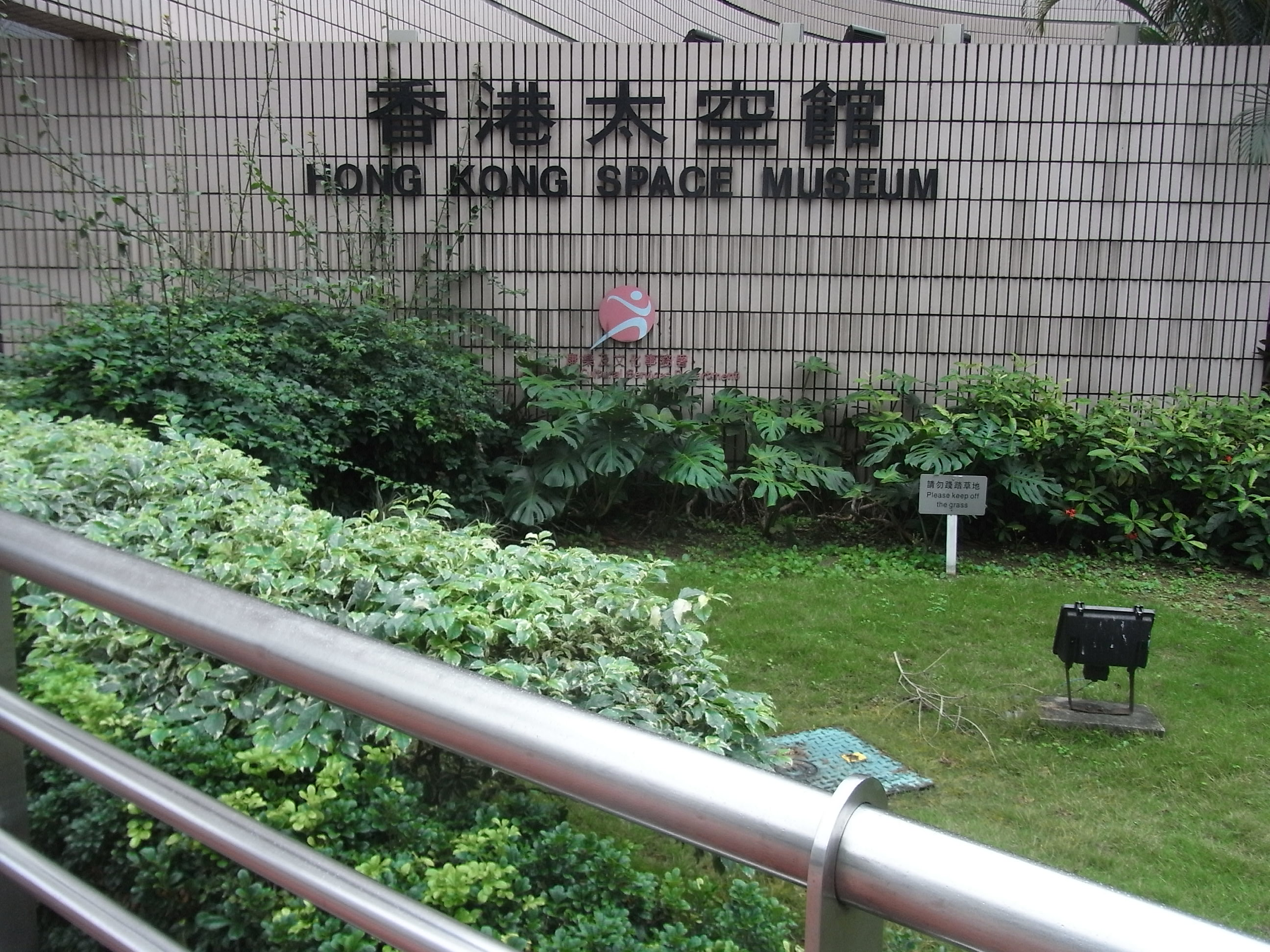 Tsim Sha Tsui, Hong Kong